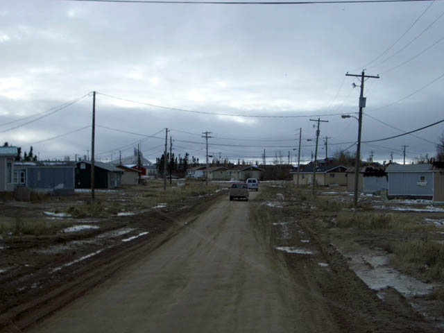 The community of Split Lake, Manitoba, as seen when entering town from Manitoba Provincial Road 280.